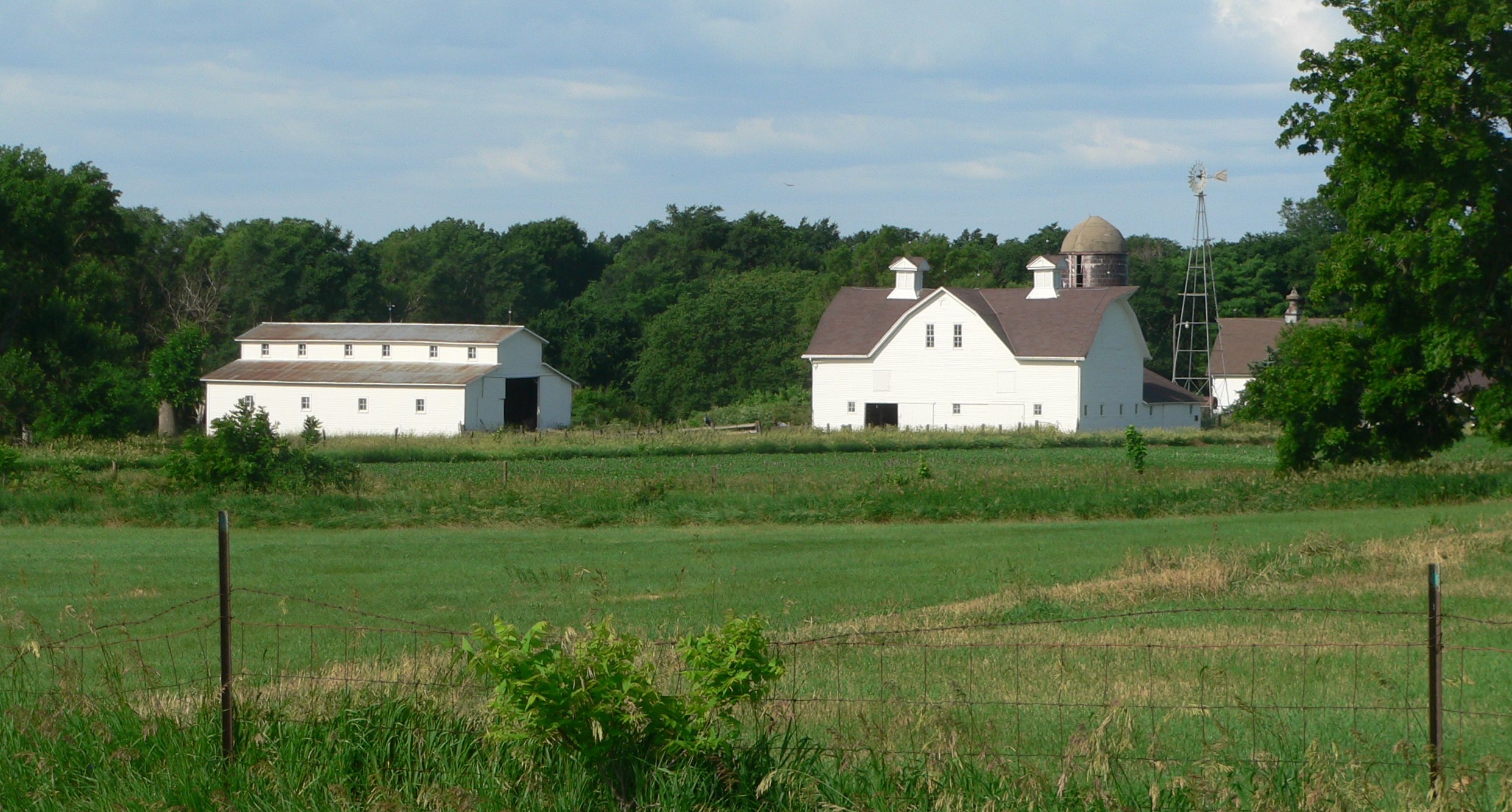 Retzlaff farmstead, located east of Lincoln in rural Lancaster County, Nebraska; seen from the east.